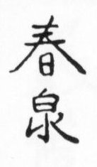 Signature of Katsukawa Shunsen (active 1787-1790) reading “Shunsen” (春泉)